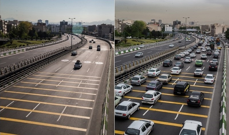 The left image shows Tehran in a day-off during Norouz vacations while the right is Tehran in a busy working day.